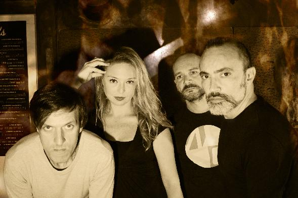 Band photo